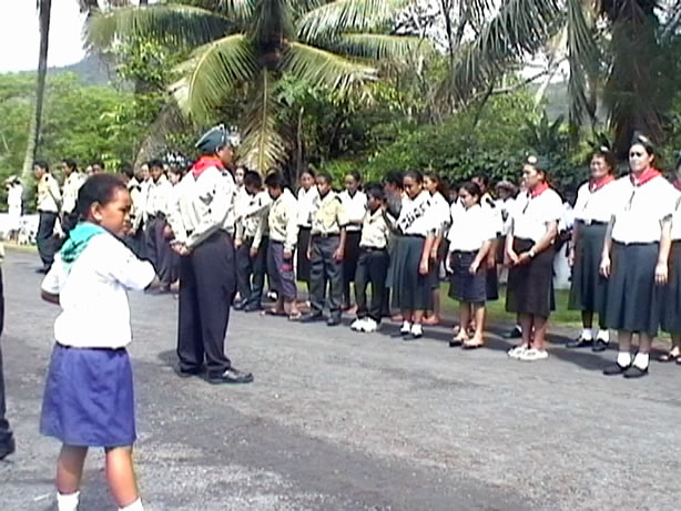 Troop review for the ANZAC Day (Rarotonga-Cook Islands).